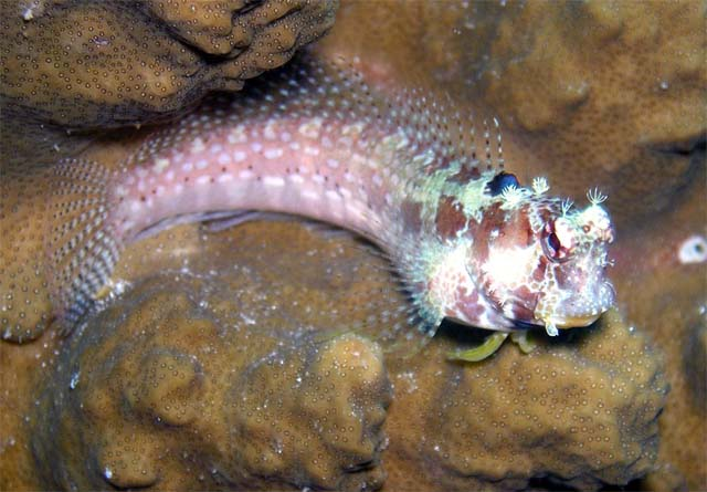 White-spotted blenny (Salarias alboguttatus), Pulau Aur, West Malaysia